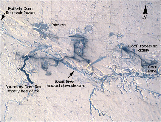 The Souris River, in the area of Estevan, Saskatchewan, viewed from the Space Shuttle, mission STS-98. Annotations show Rafferty Dam & Reservoir, Boundary Dam Reservoir, Estevan, and the Estevan coalfield.